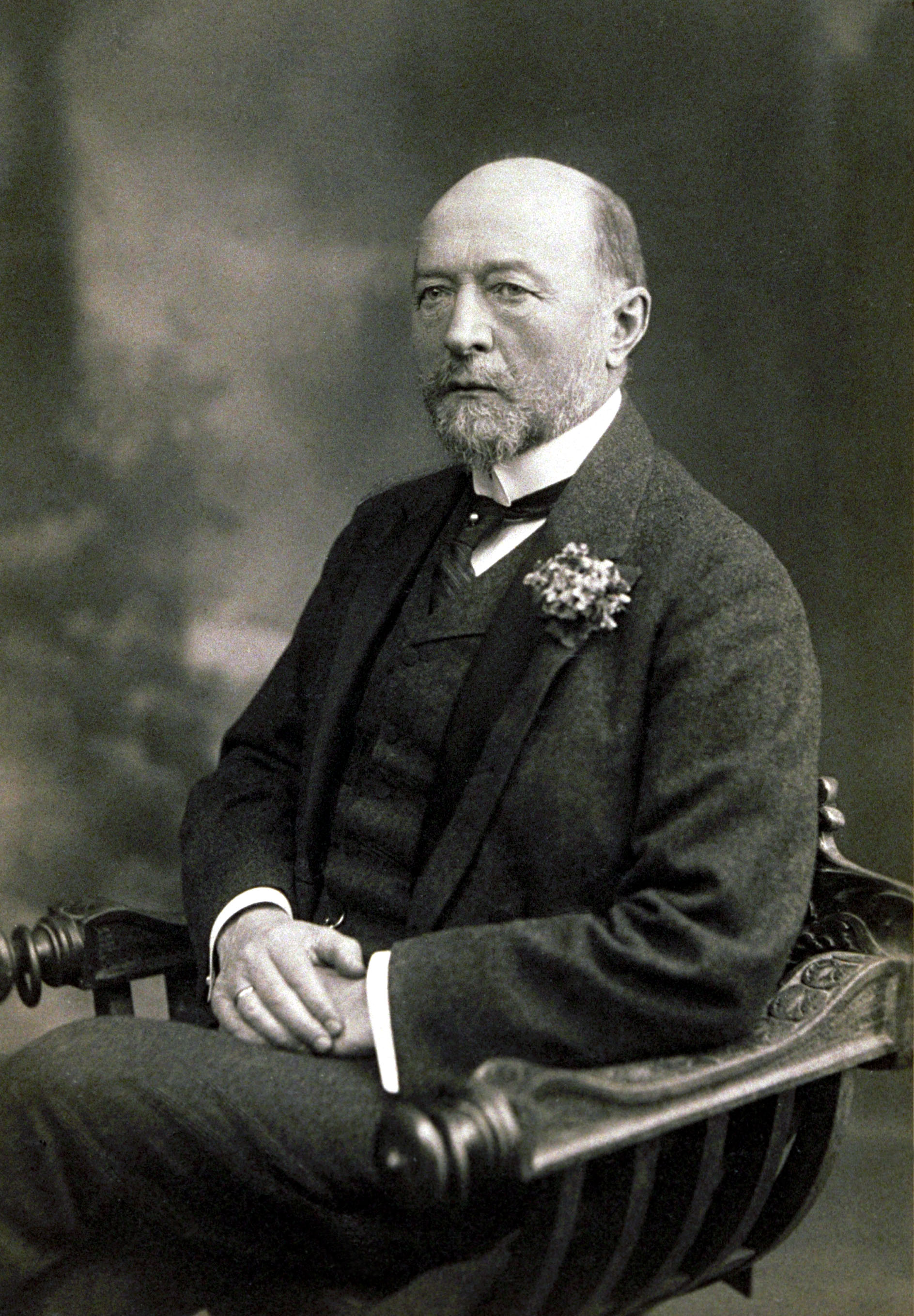 Emil von Behring seating.